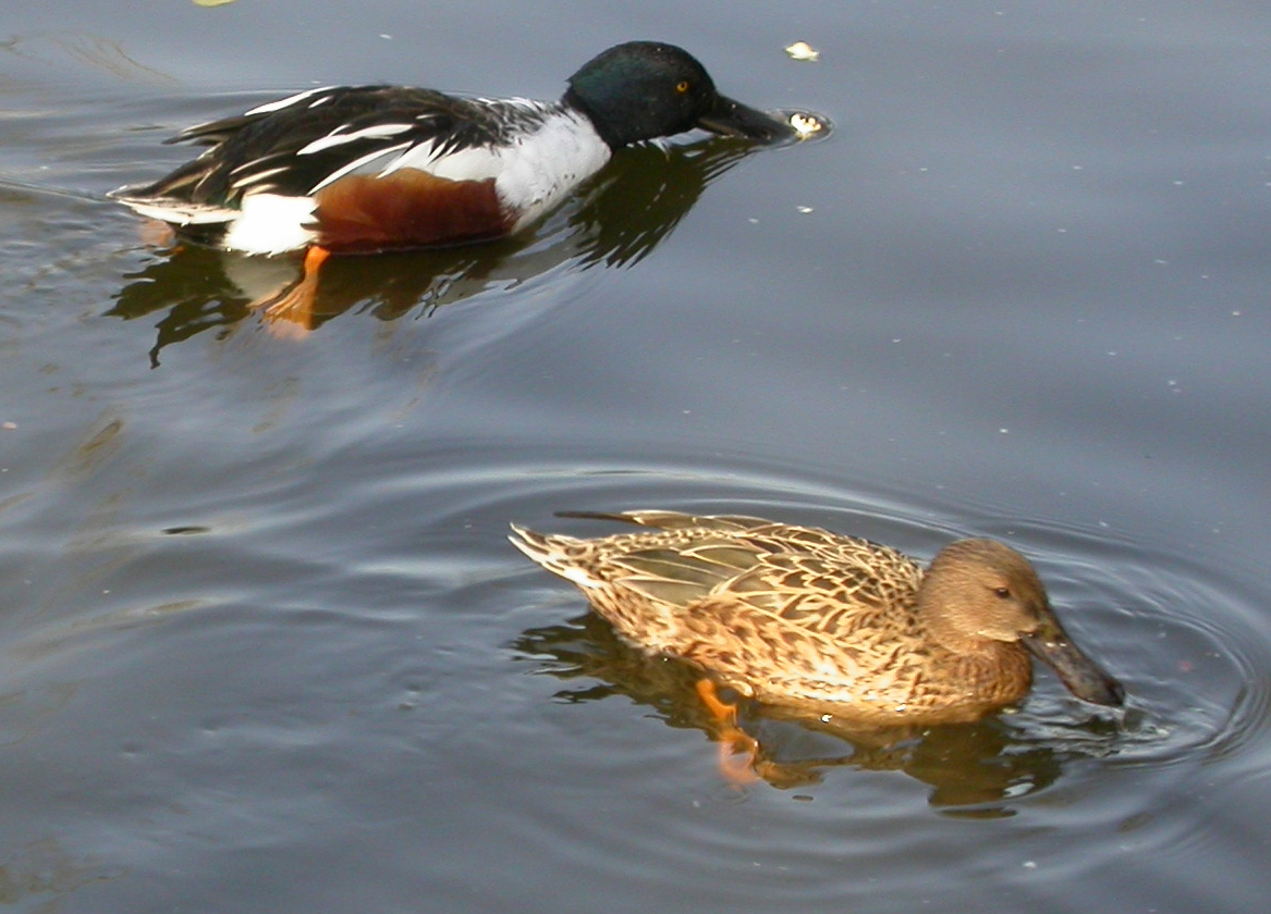 Anas clypeata pair, Beijing Zoo